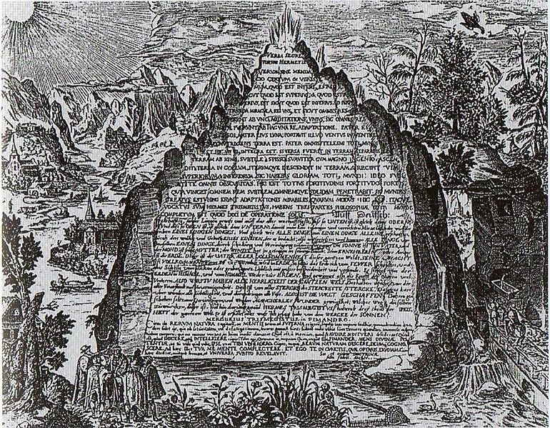 The Emerald Tablet